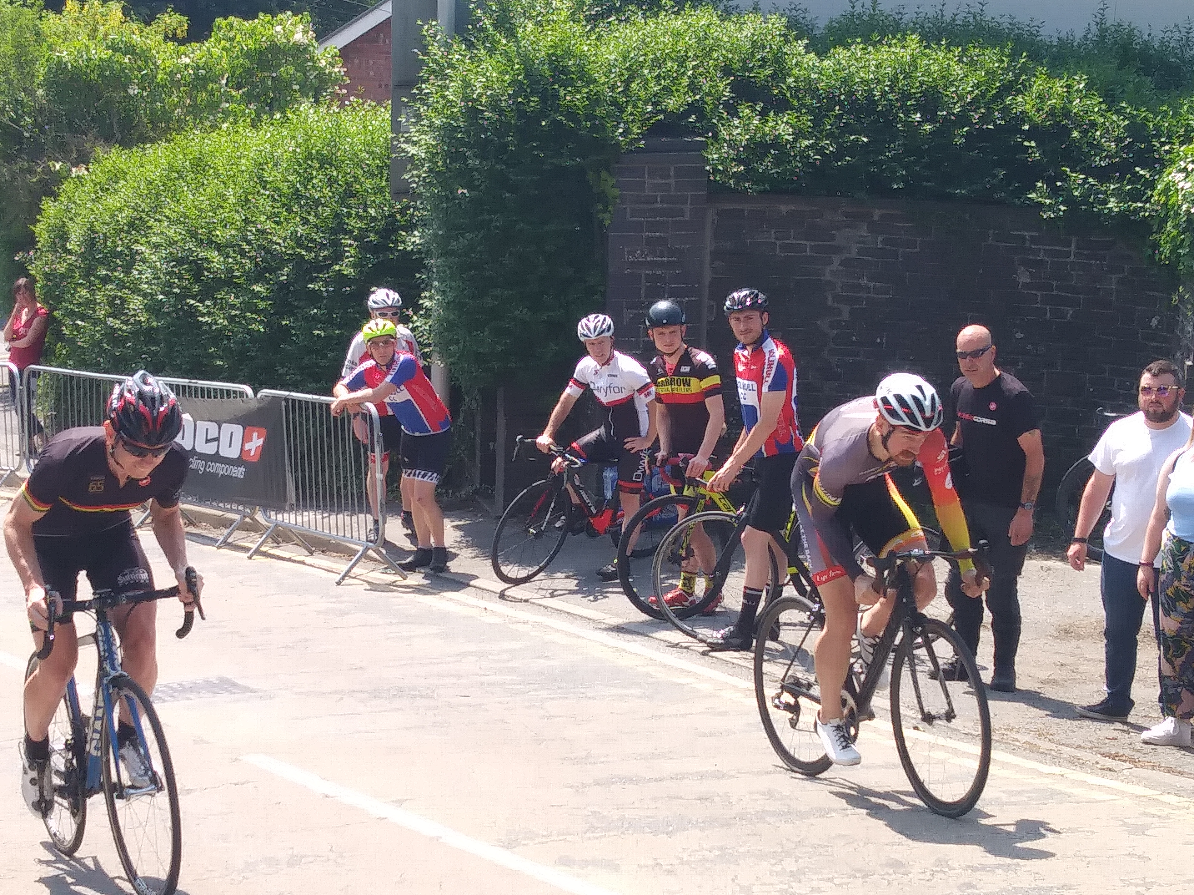 Gwyl Seiclo Aberystwyth, Cefn Llan2 2018